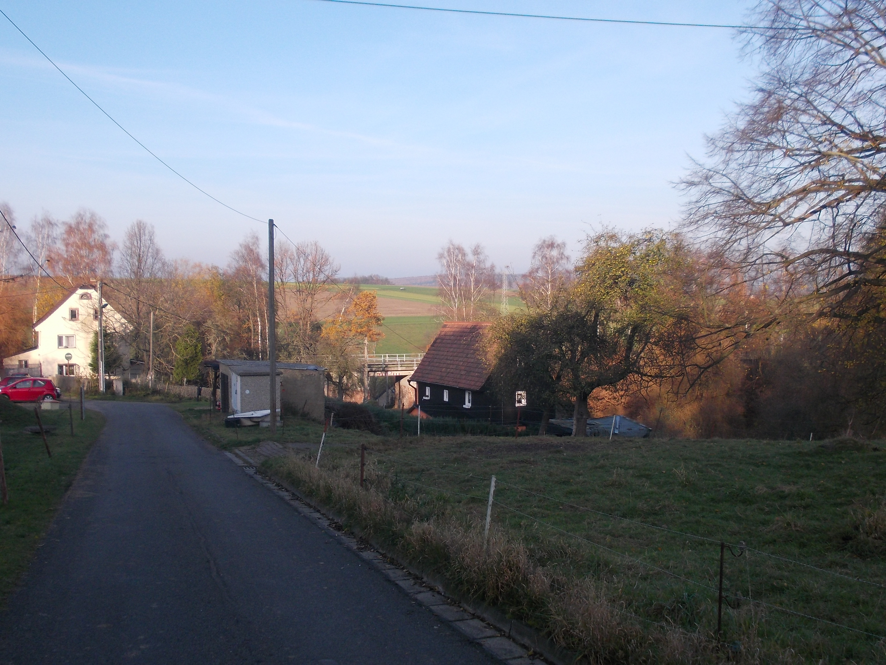 Corbaer Strasse in Himmelhartha (Lunzenau, Mittelsachsen district, Saxony)